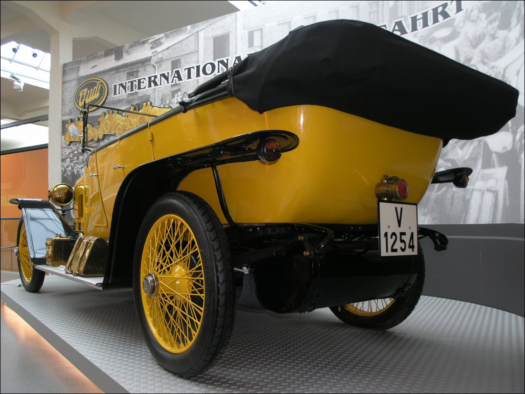 A 1913 Audi C 14/35 PS Alpensieger (“Alps champion”) in the August Horch Museum, Zwickau.